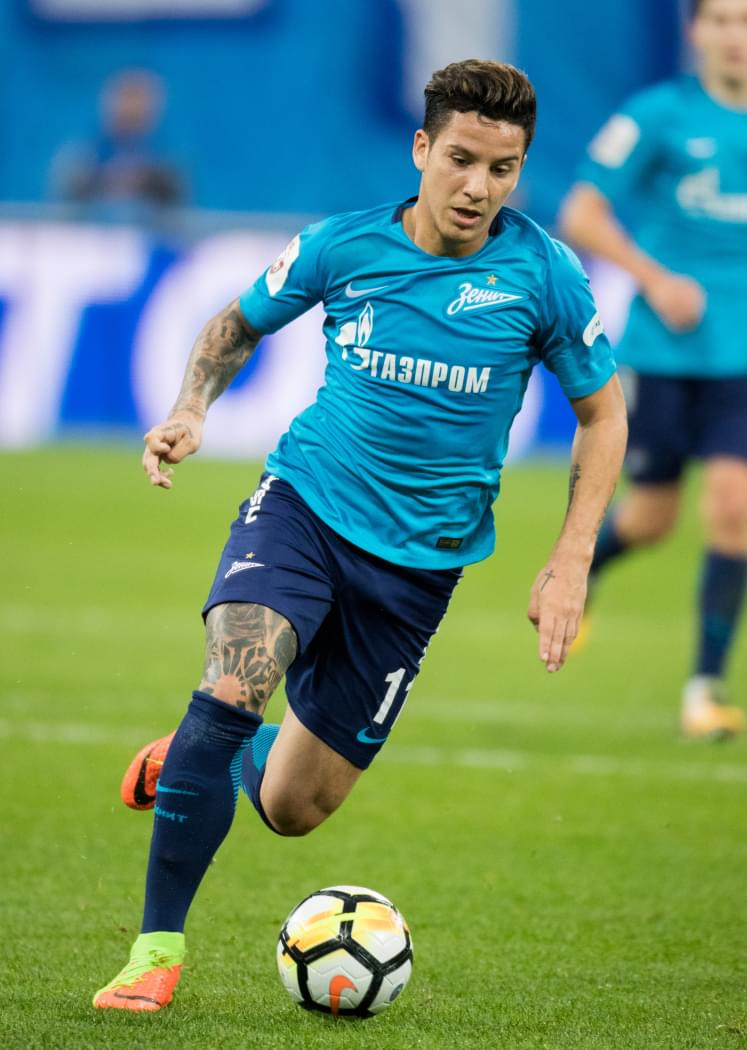 22.07.2017. Россия, Санкт-Петербург, стадион «Санкт-Петербург». Росгосстрах-Чемпионат России 2017/18, «Зенит» — «Рубин».